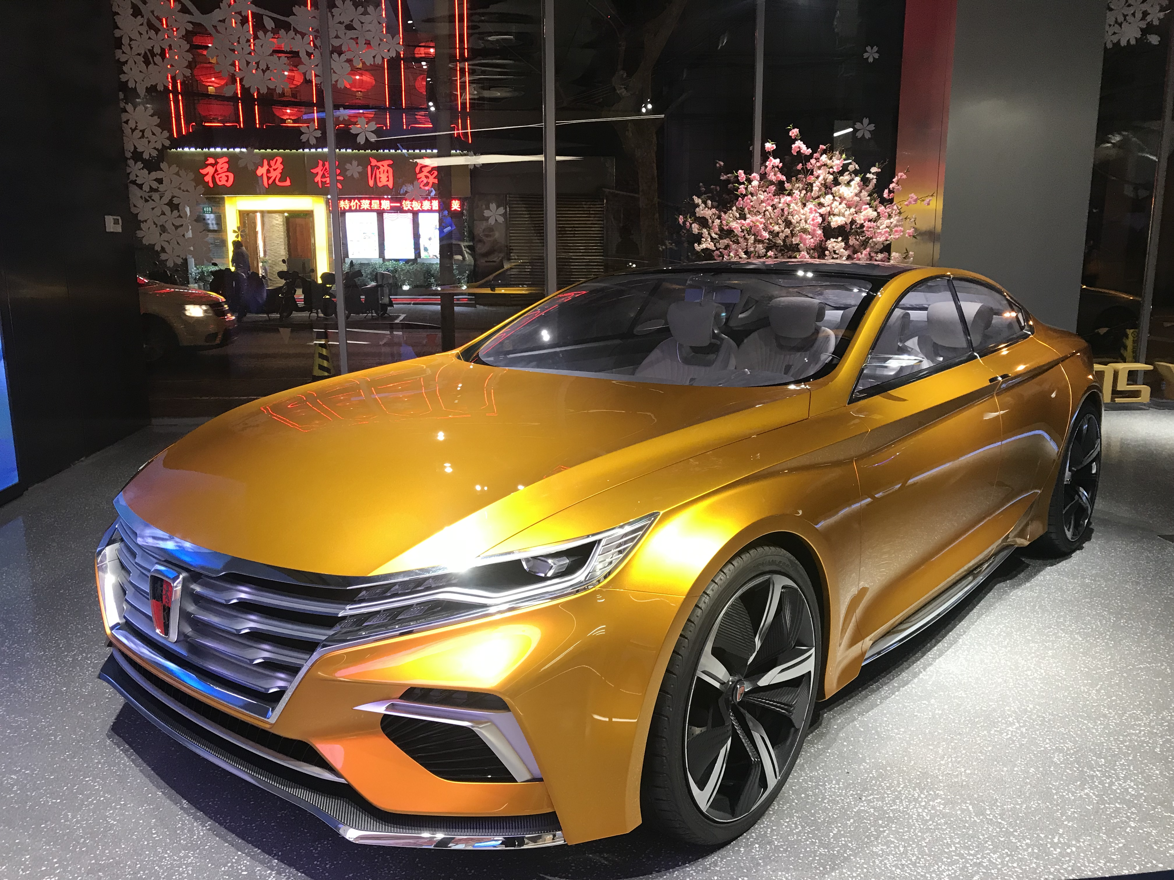 Roewe Vision R Concept